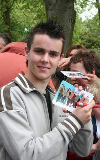 Copyright by